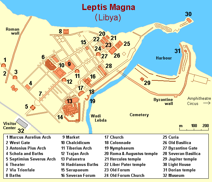 Map (rough) of ancient Leptis Magna, Libya, own work composed from various map references